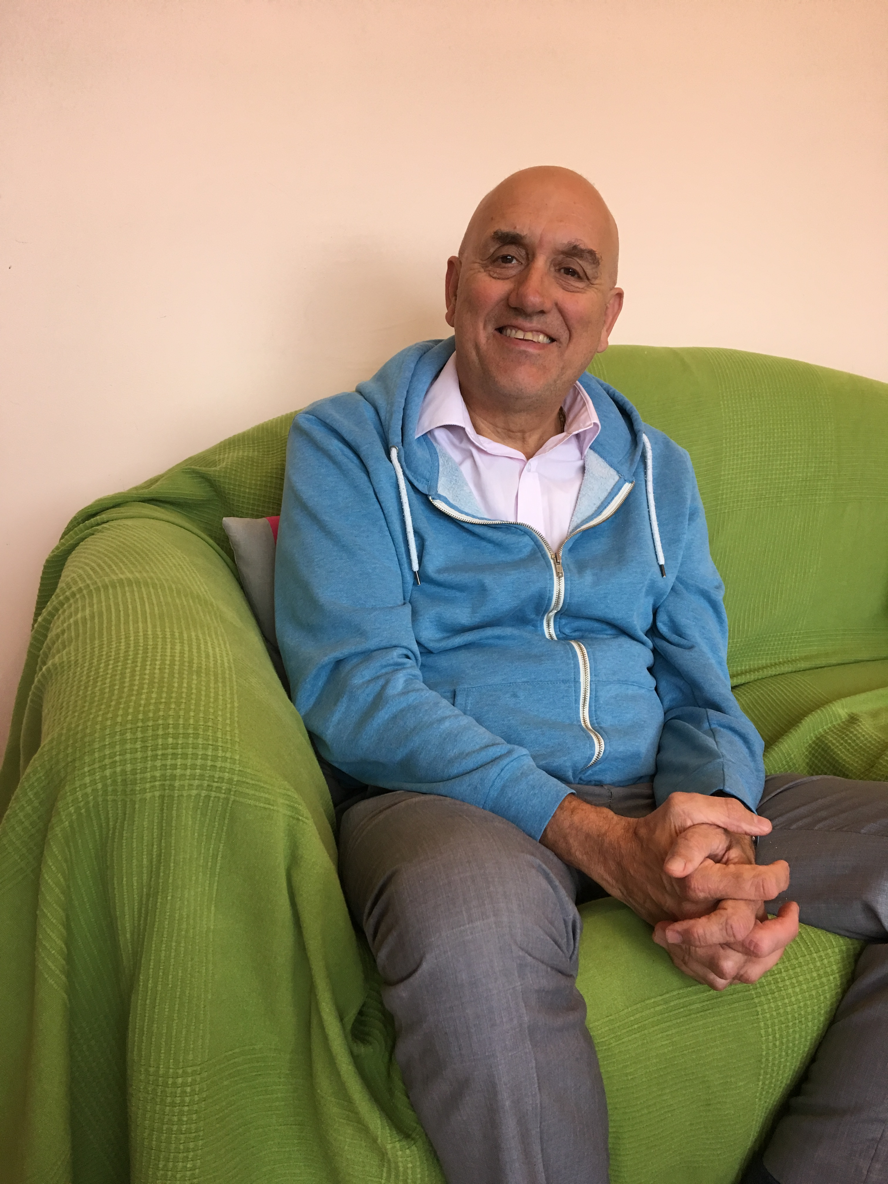 Krishna Dharma